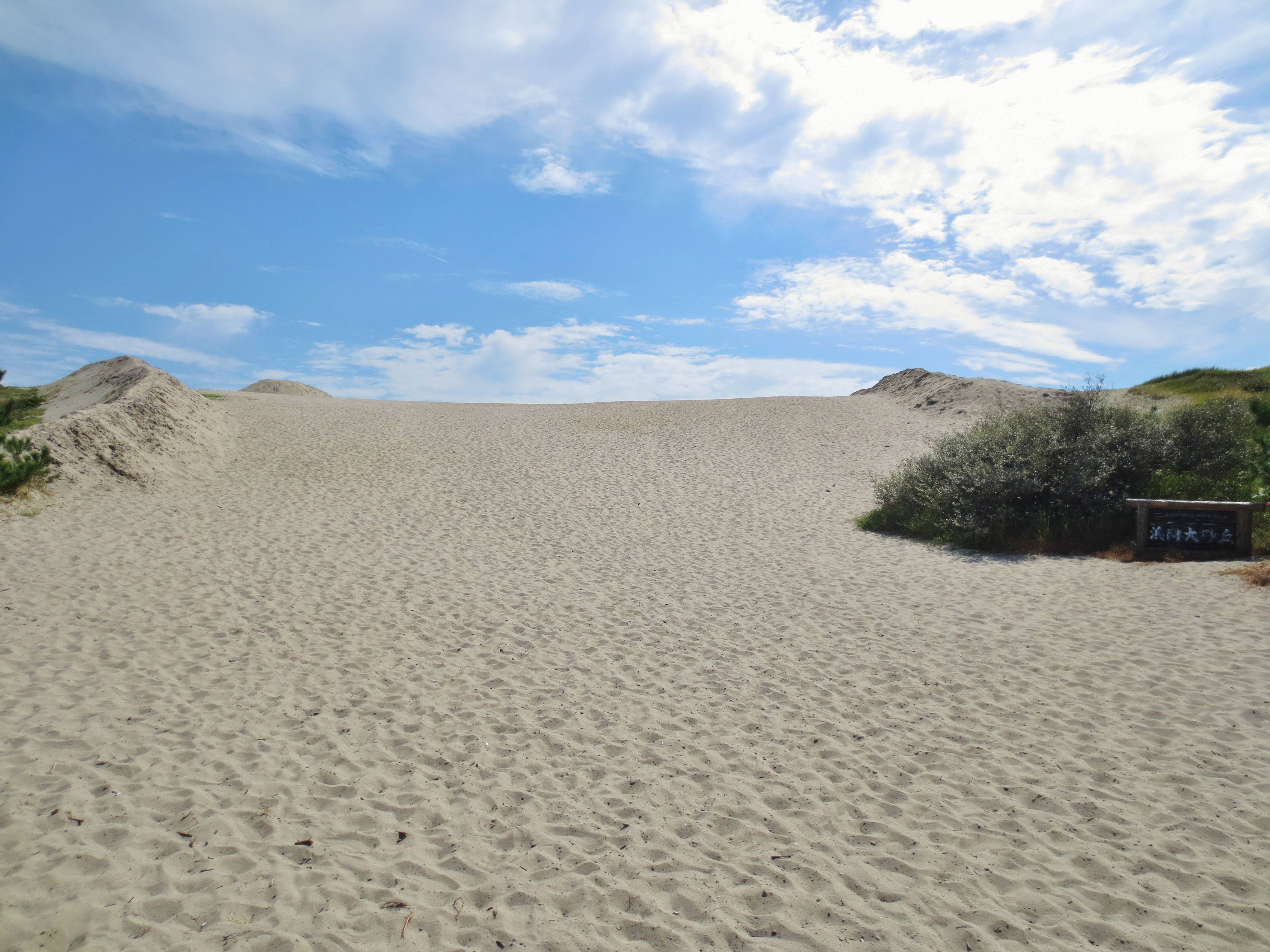 Hamaoka Dunes.